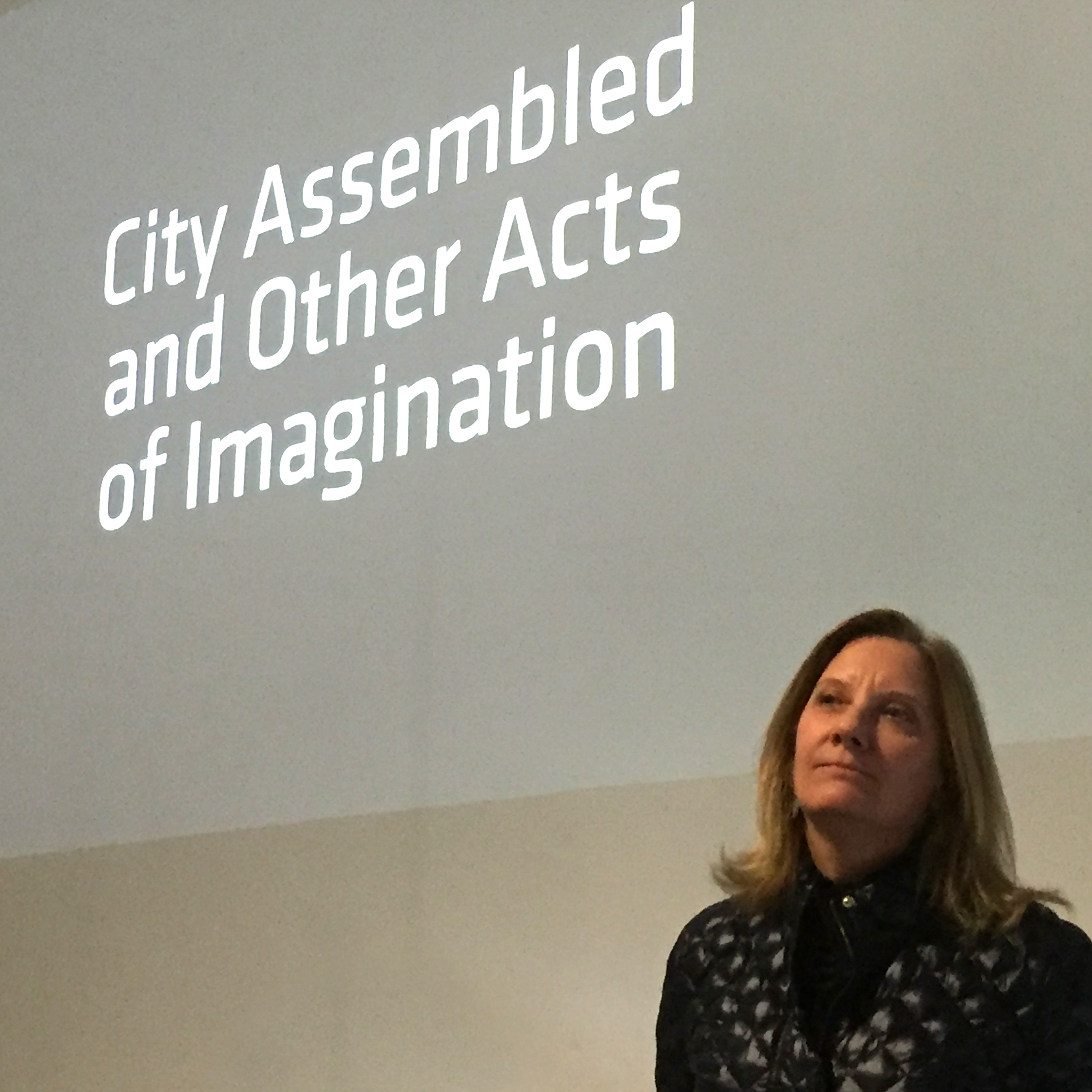 Architect Karen Bausman lecturing at The School of Architecture of The Cooper Union in 2018.